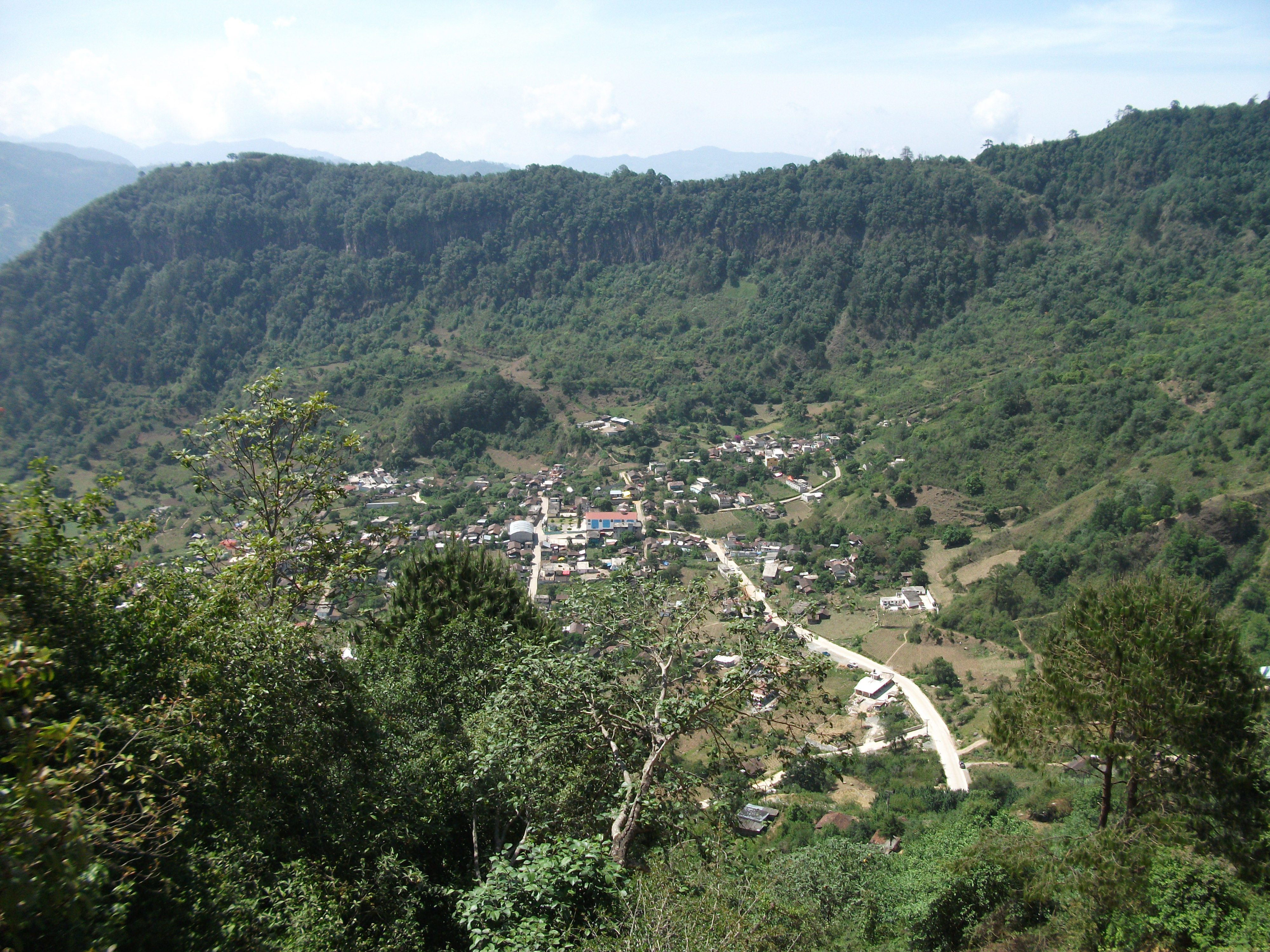 Chachahuantla village